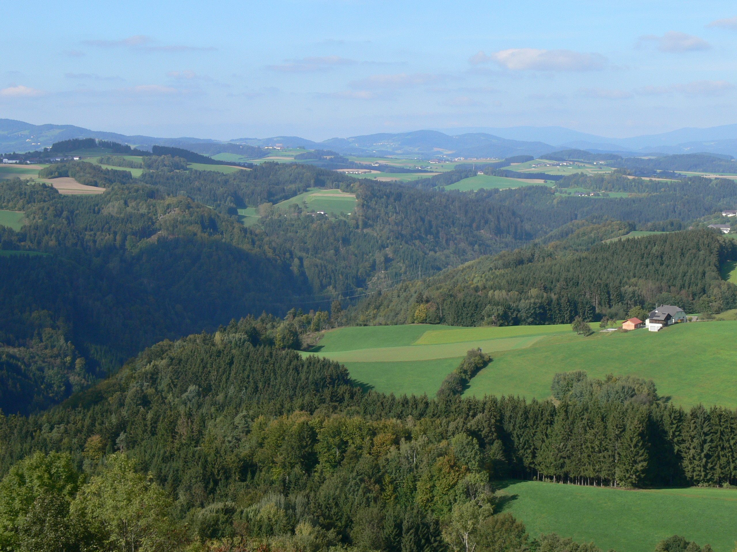 Kirchberg. View into the Mühlviertel